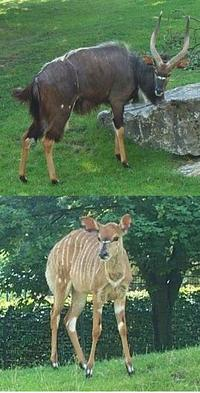 Nyalas. Male (top), Female (bottom)